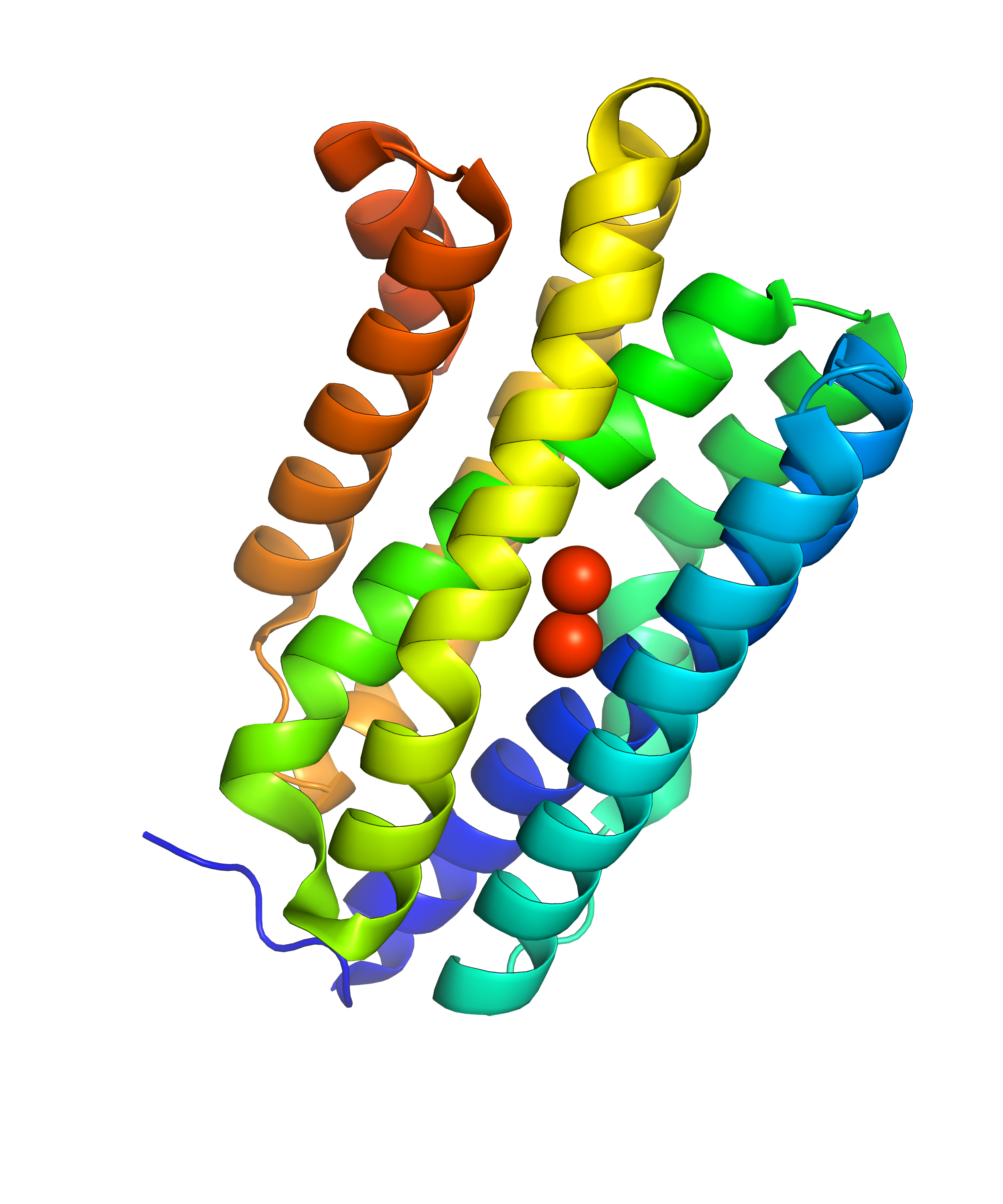 Plain cartoon structure of P marinus cADO, PDB 4PGI